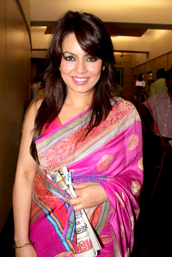 Mahima Chaudhry felicitate academic excellence among minorities